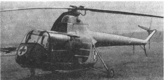 2nd prototype of SM-2 helicopter, in air ambulance configuration